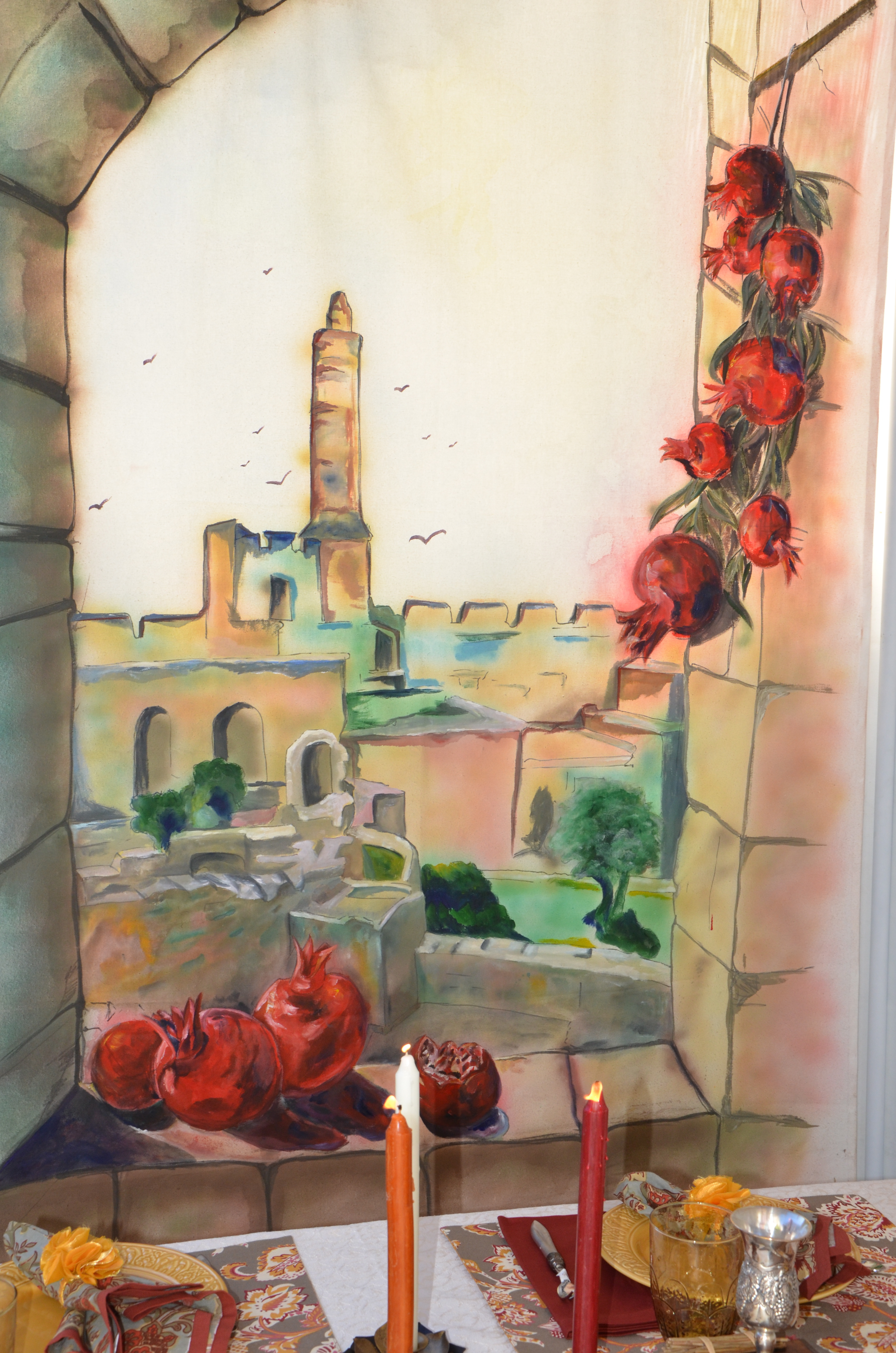 It is appropriate to decorate your Sukkah in order to add to the Joy of this magnificent holiday. This 5' x 8' wall is an example of art that would be hung inside the Sukkah. The quality is so good it can be handed down from generation to generation becoming a treasured memory for your family.